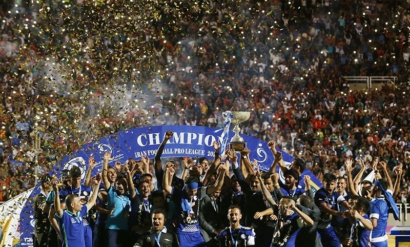 Esteghlal Khuzestan players ans staffs after won Iran Pro League